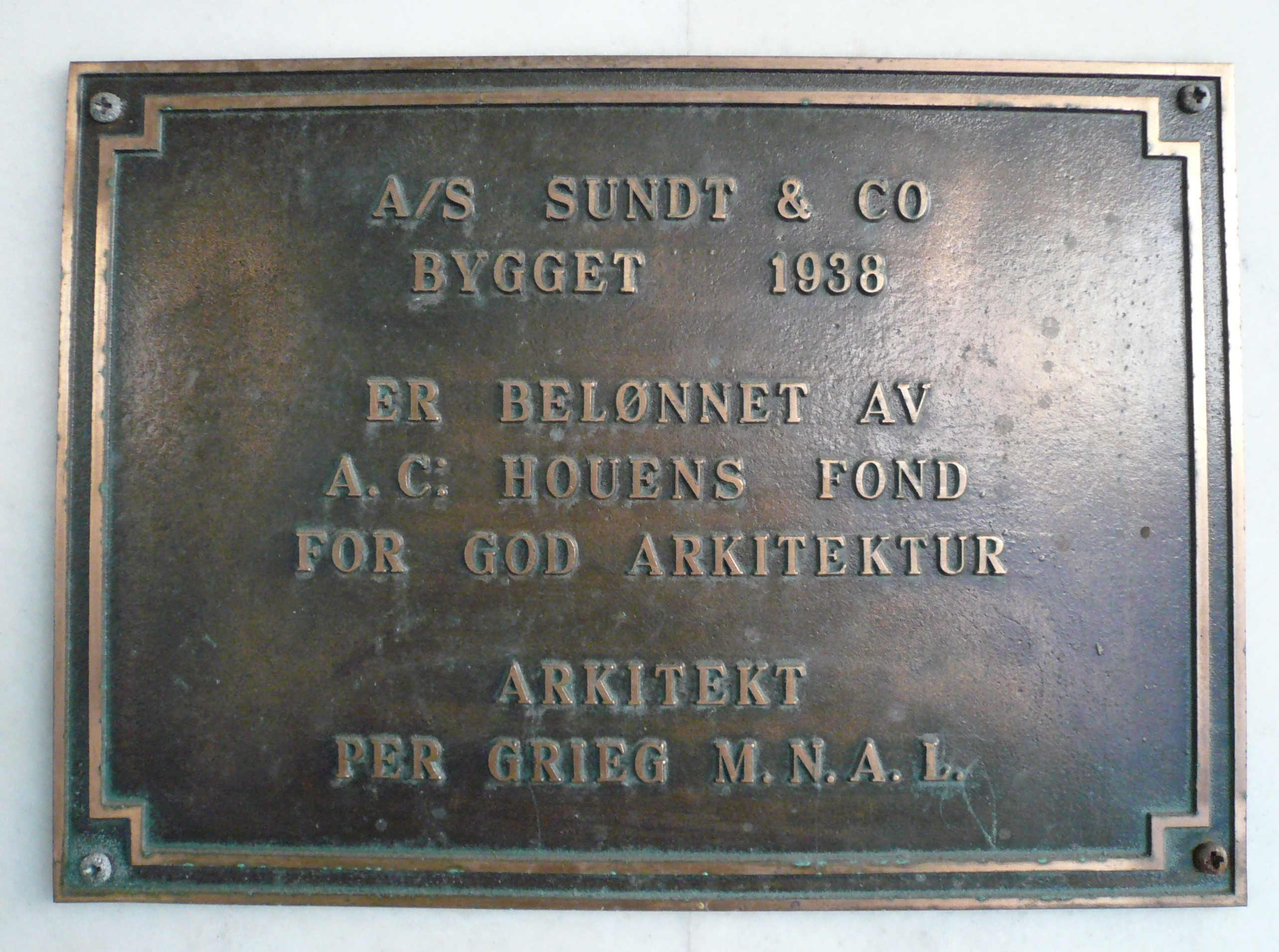 Sundt, Bergen, Norway